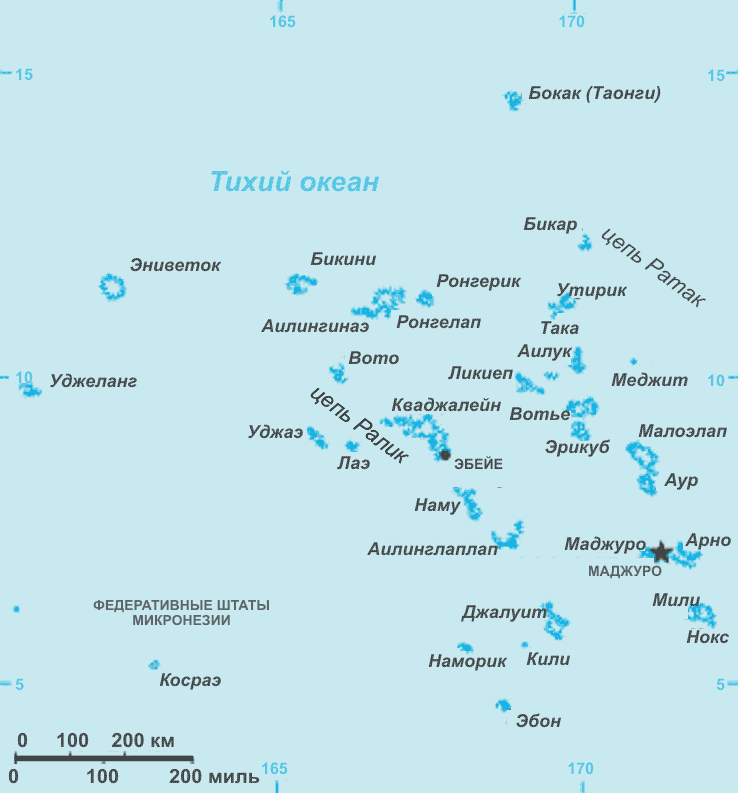 Map of the Marshall Islands in Russian